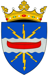 Coat of Arms of Rajon Dubăsari